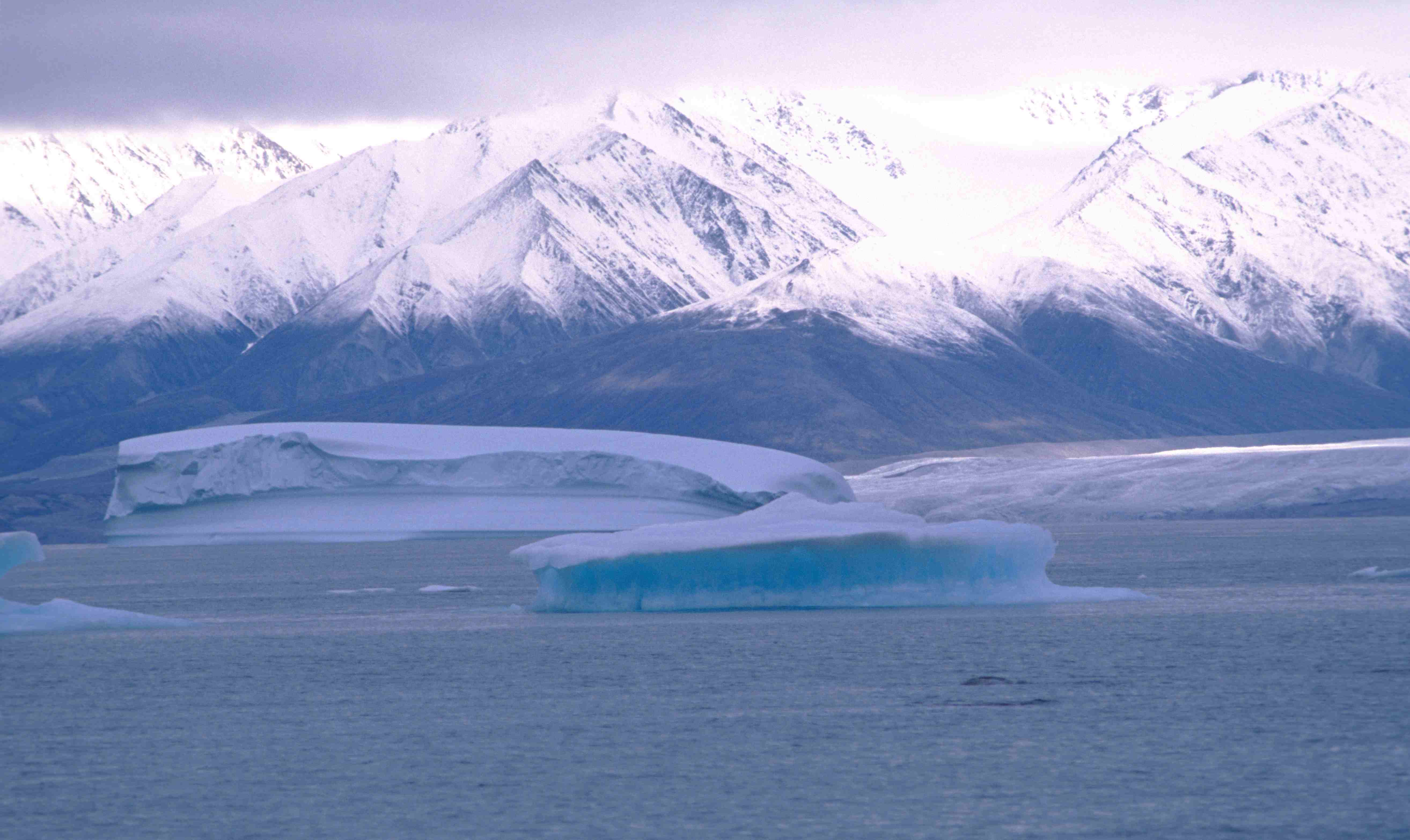 Sirmilik Glacier (southern coast of Bylot Island at Pond Inlet), Sirmilik National Park, Canada